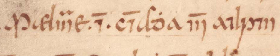 An excerpt from folio 28v of Oxford Bodleian Library MS Rawlinson B 489 (the Annals of Ulster). The excerpt concerns Máel Muire ingen Cináeda (died 913).